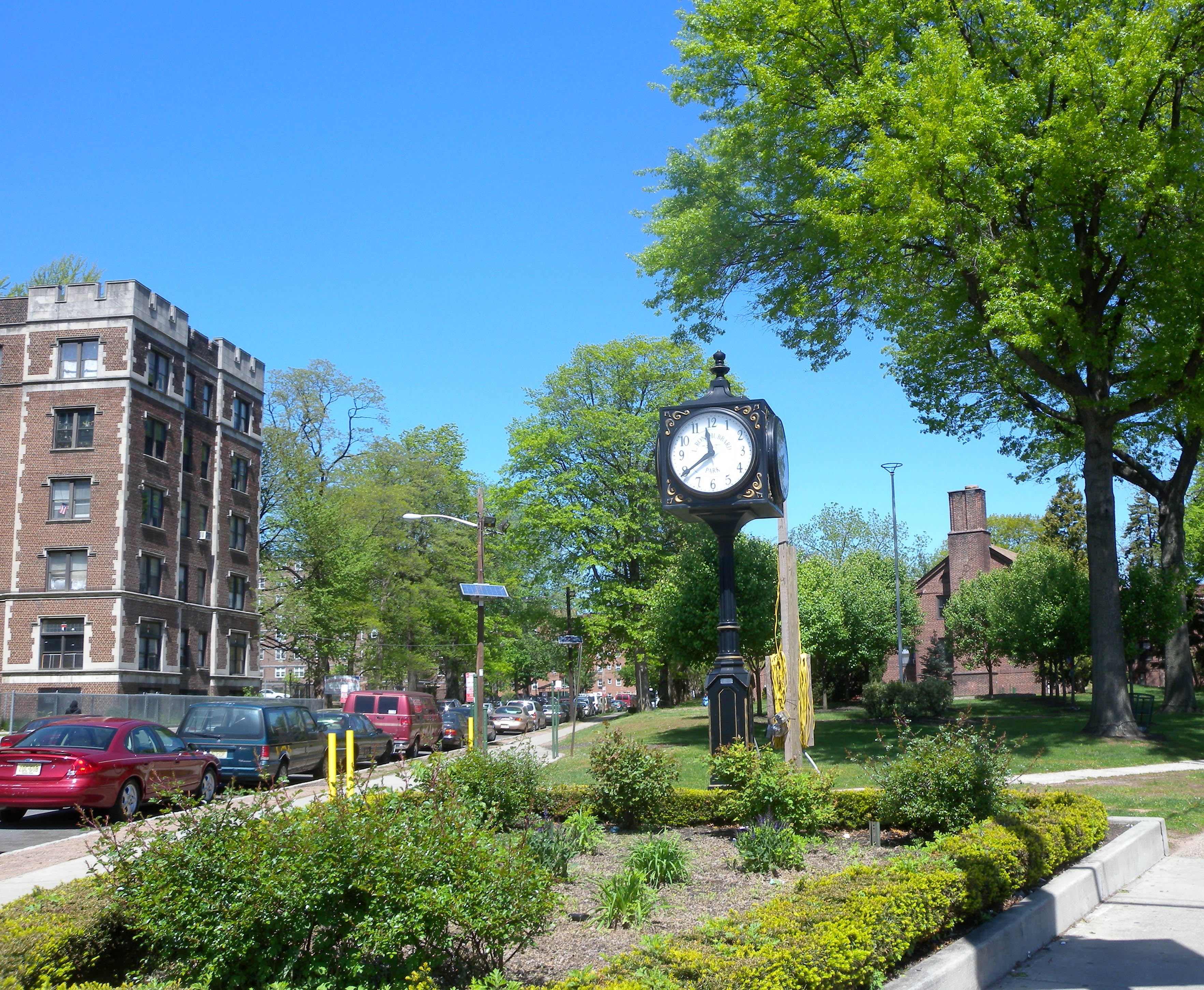 Looking north at L Ron Hubbard Park on a sunny morning.